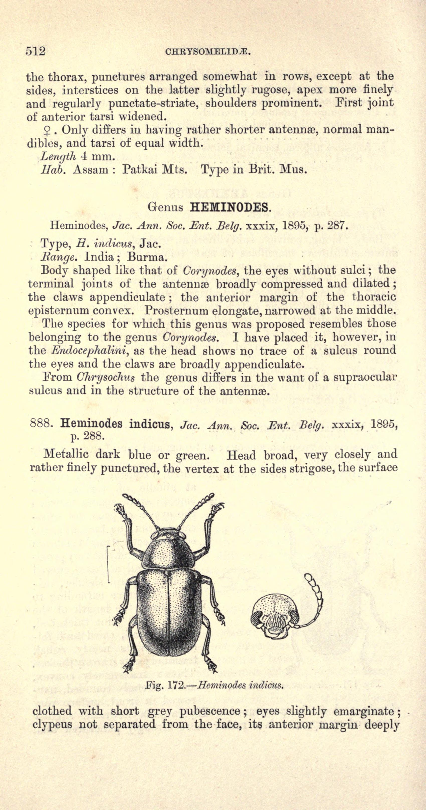 Coleoptera. Chrysomelidae. Vol. I.